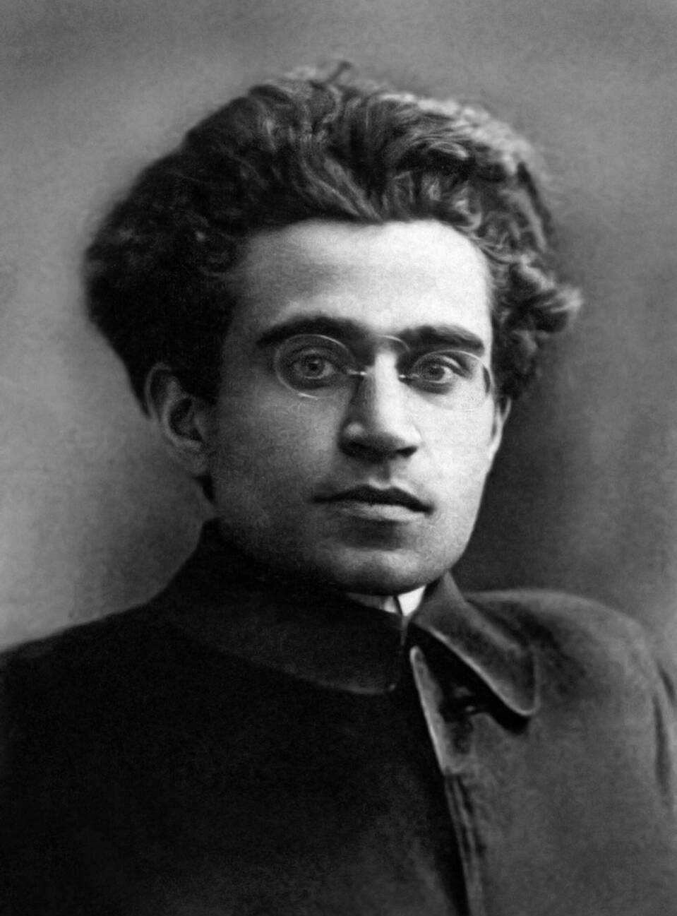 Portrait of Antonio Gramsci around 30 in the early 20s